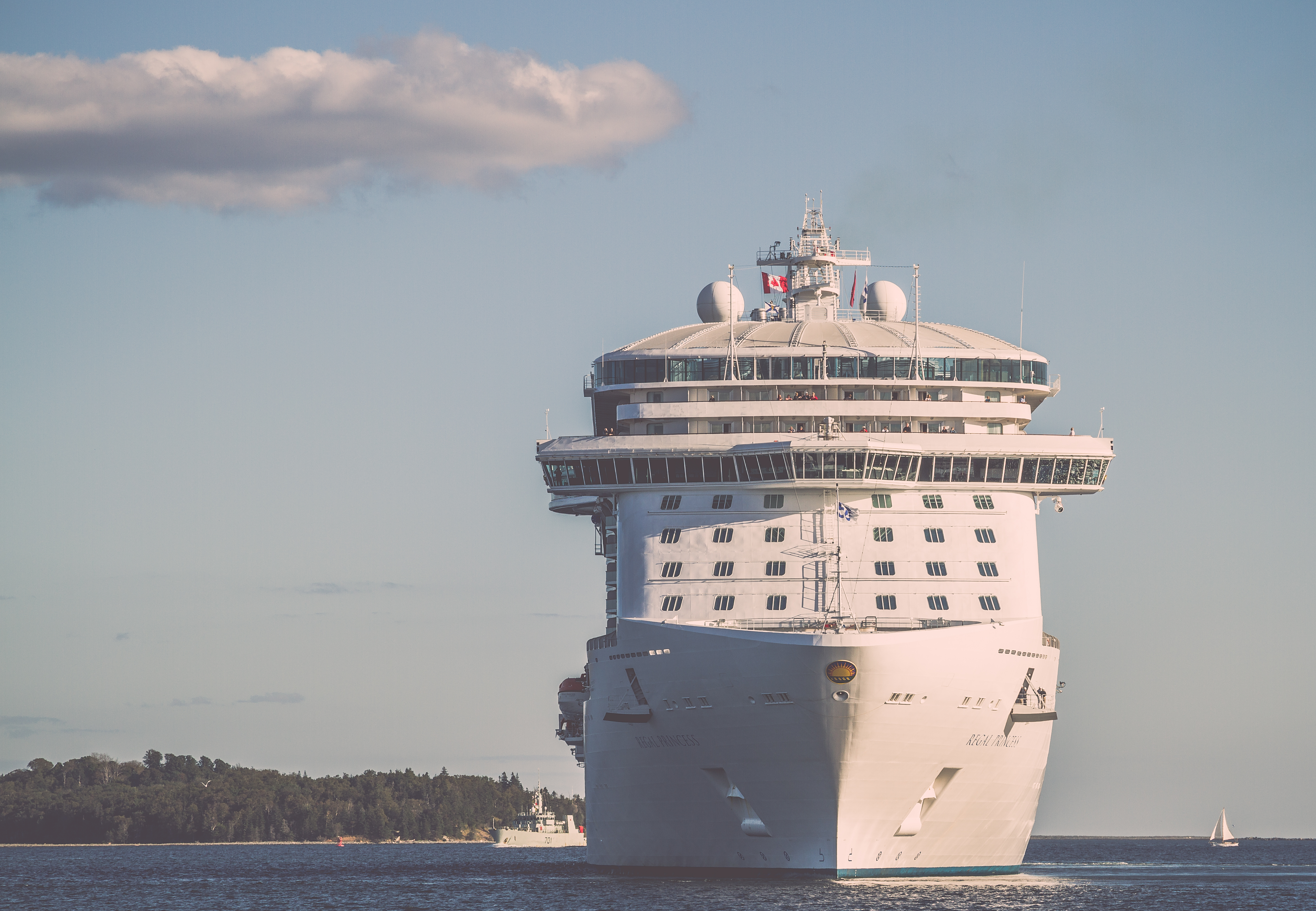 The MS Regal Princess cruise ship in Halifax harbour, Nova Scotia, Canada.